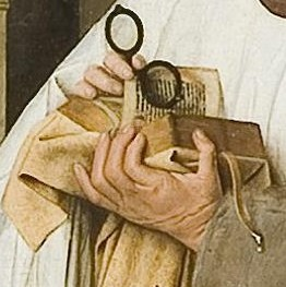 Detail from the Virgin and Child with Canon van der Paele